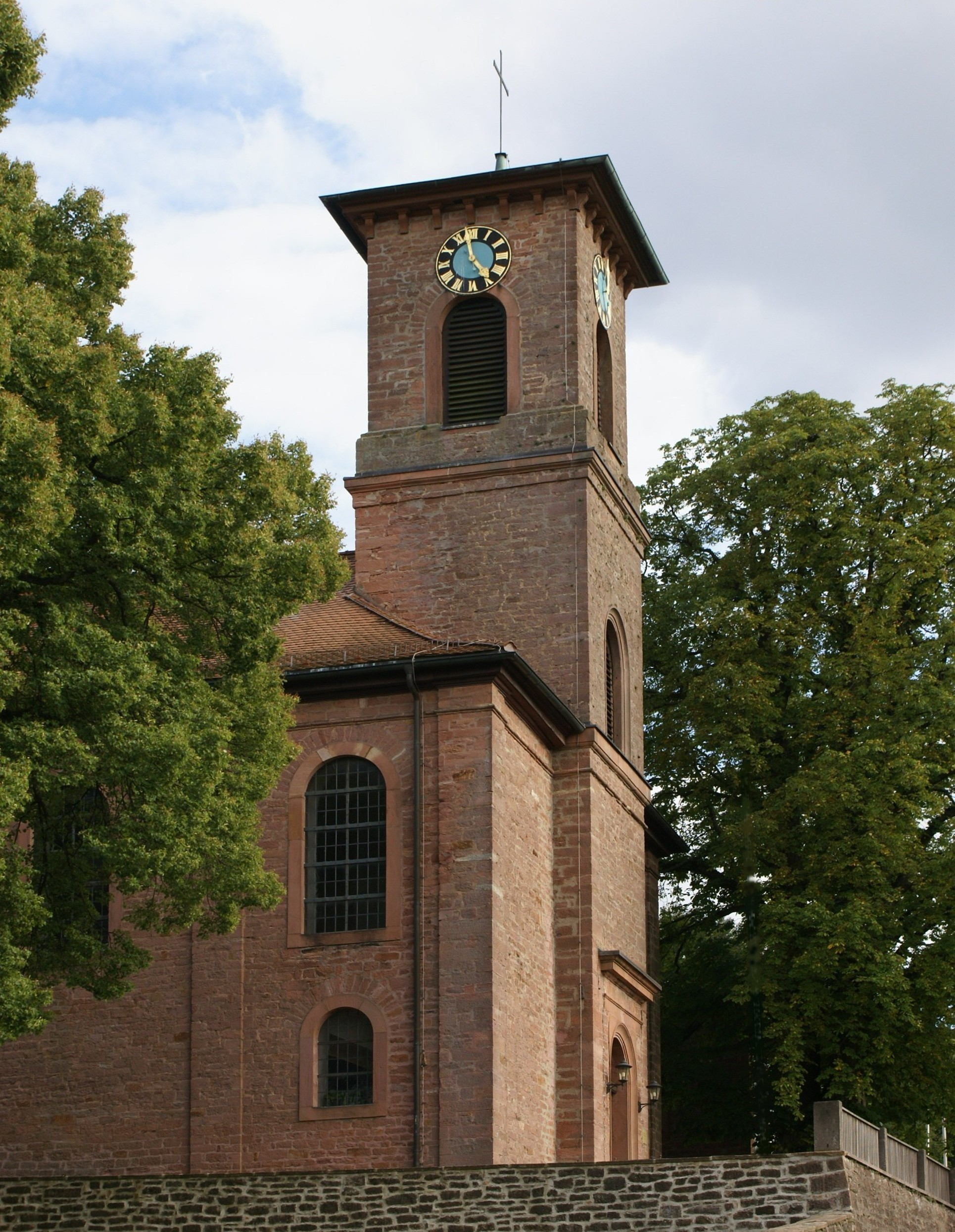 The dominating parish church St. Georg was built in 1834